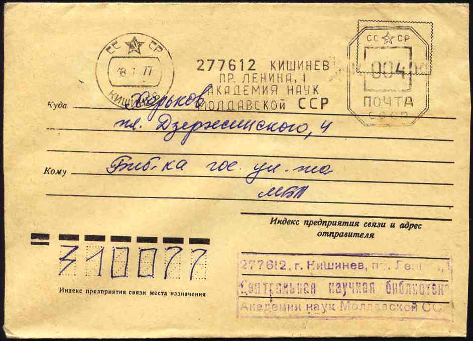 USSR postage meter stamp, a cover, Moldavian Academy of Science, Kishinev, 4 kop., July 18, 1977.